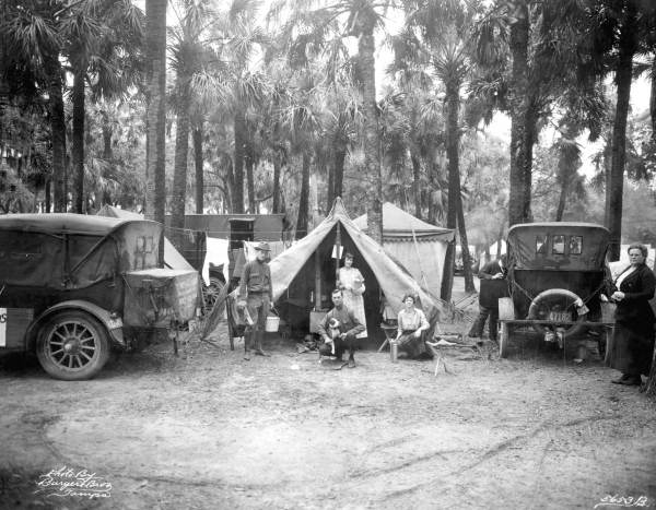 Local call number: RC03387 Title: Tin Can Tourists at De Soto Park Date: December 25, 1920 Creator: Burgert Brothers. Physical descrip: 1 photoprint - b&w - 8 x 10 in. Series Title: Reference collection Repository: 500 S. Bronough St., Tallahassee, FL 32399-0250 USA. Contact: 850.245.6700. Persistent URL: Visit Florida Memory to learn more about the founded in Tampa, Florida.